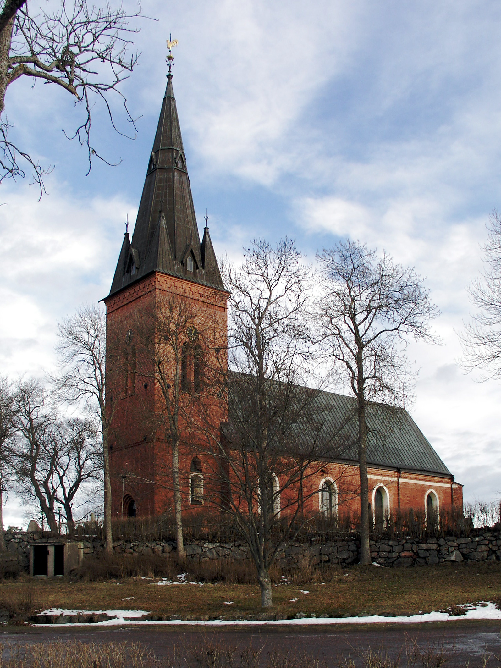 Danmarks kyrka, Diocese of Uppsala. The foto was taken the 1st of February 2006 by Håkan Svensson (Xauxa).